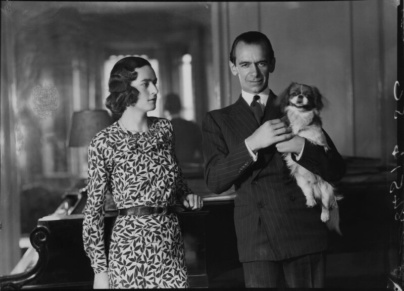 Malcolm Sargent accompanied by his wife Eileen, 22 June 1938.